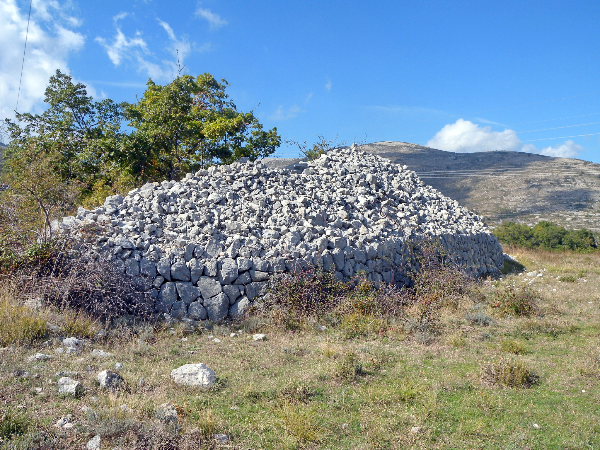 Scree